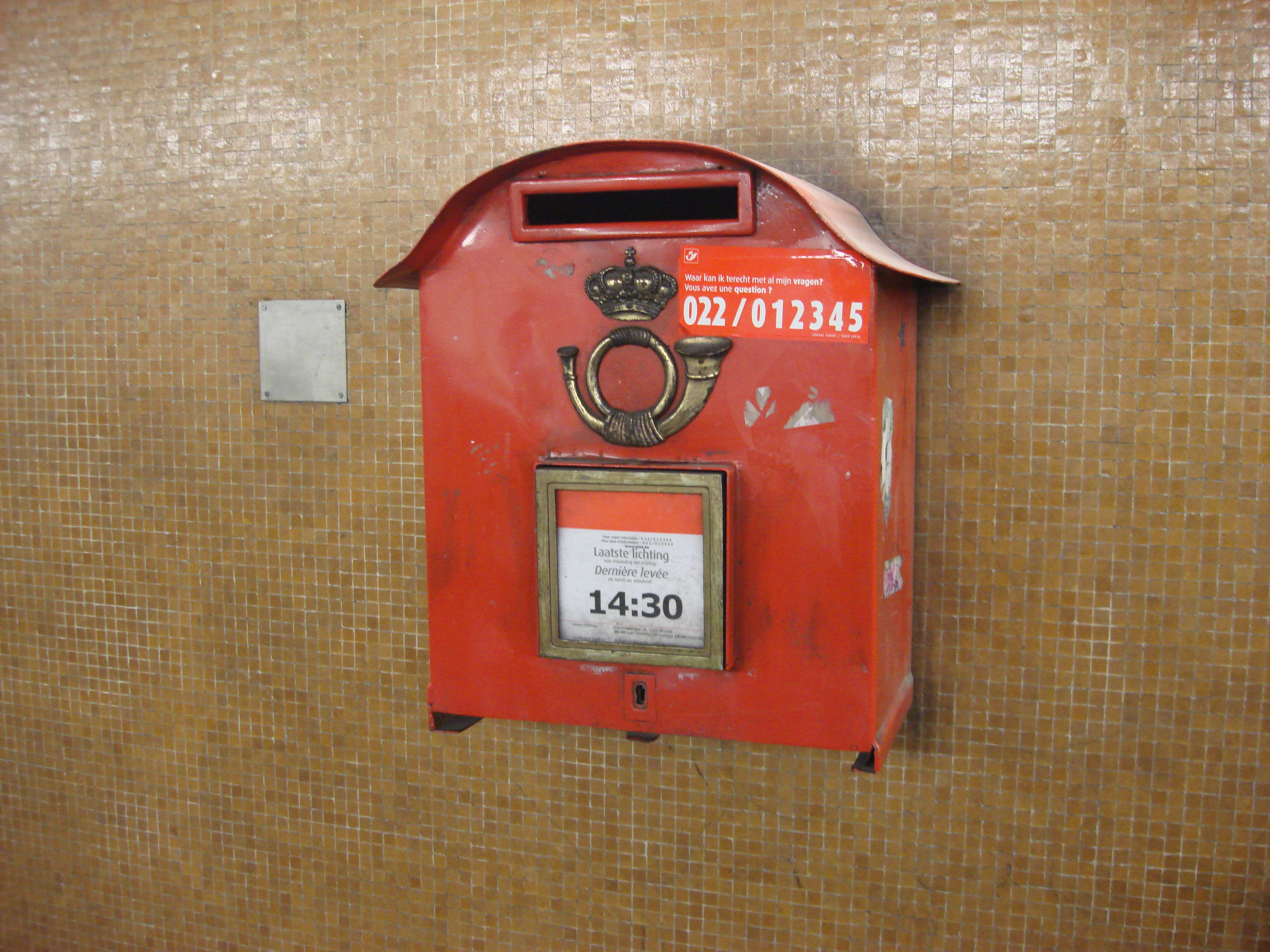 Postbox in Brussels Park/Parc Metro station